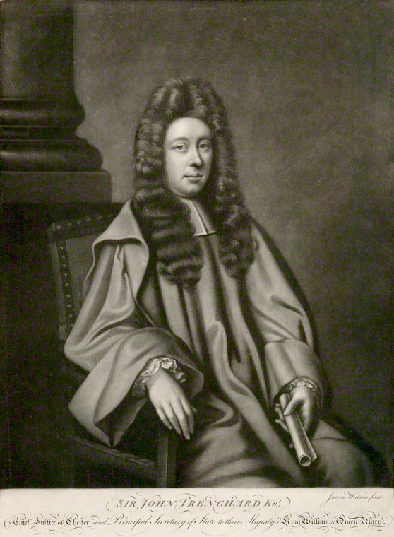 Sir John Trenchard (1640-1695)